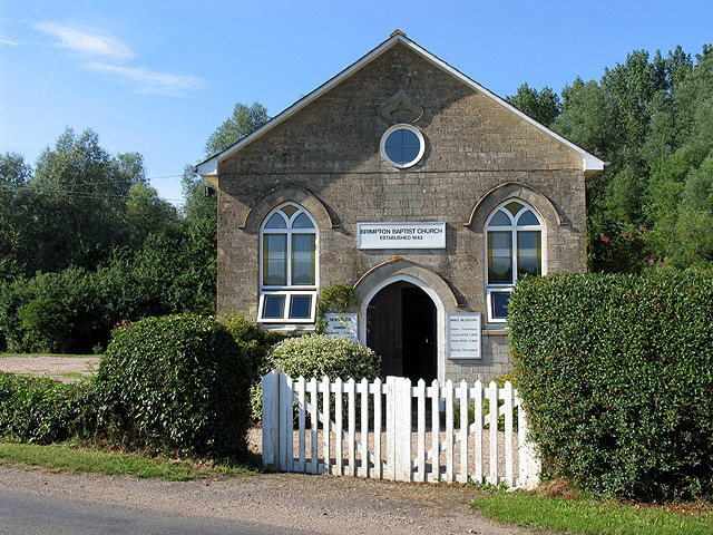 Brimpton Baptist Church, Brimpton, Berkshire, built in 1843